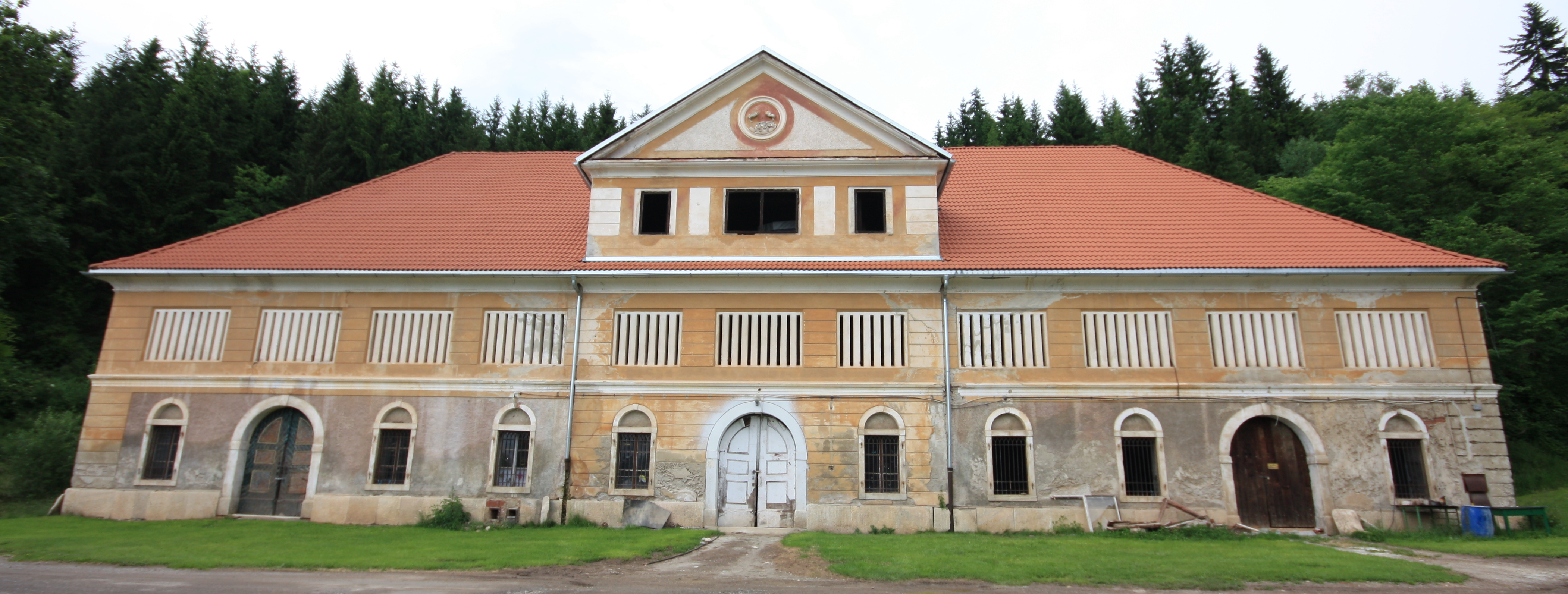 Farm-building at Töscheldorf castle, near Althofen, Carinthia